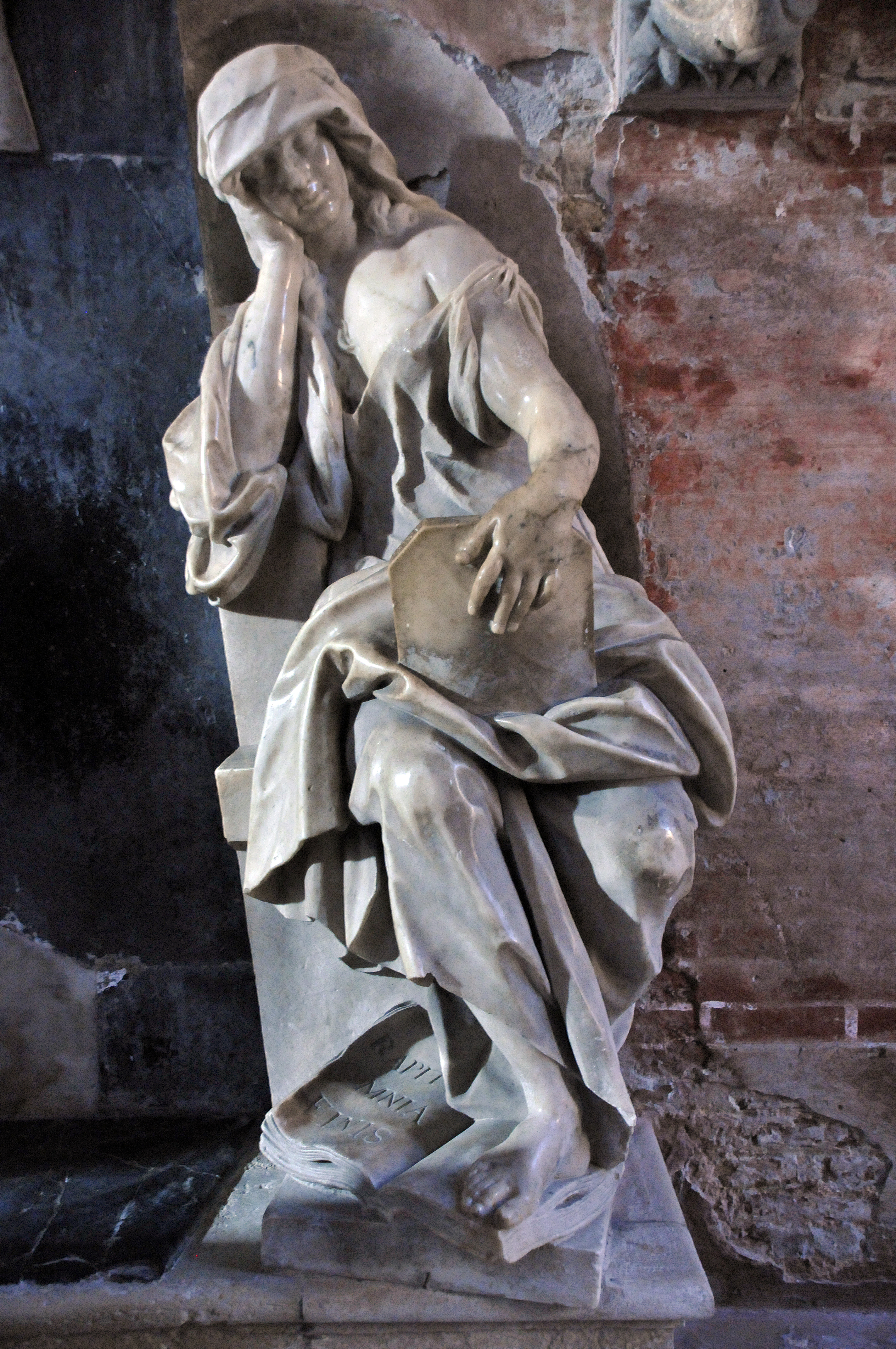 Melancholia by Melchior Barthel, at the funeral monument of the Painter Melchiorre Lanza in the Chiesa di Santi Giovanni e Paolo, Venice.